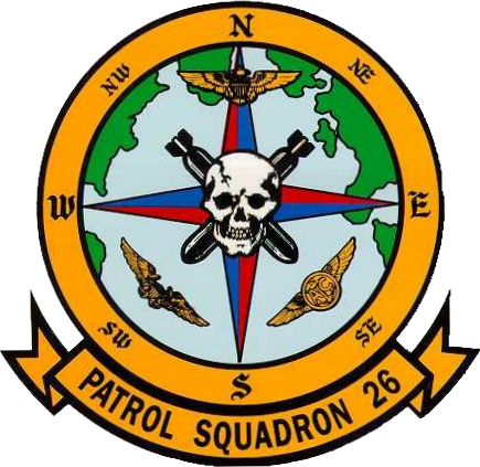 Insignia of the United States Navy Patrol Squadron 26 (VP-26), approved on 13 June 1950.